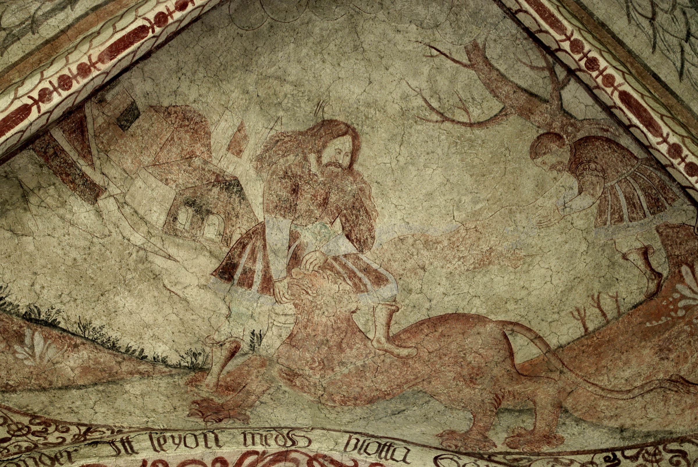 Bälinge church in Sweden with famous wall paintings made by Peder The Painter 1621-1622.